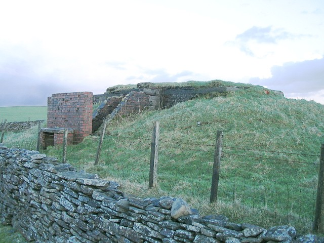 Bunker on Mynydd Drumau Marked somewhat dishonestly as house platforms on current OS maps this red brick structure is obviously some kind of bunker. It is in the corner of a field, right next to a wide track, with no obvious access through the boundaries in between. Inside, there are 2 small square rooms separated by a narrow corridor. The south one is completely dark and the north one is illuminated only by the now coverless hatch in its roof. The bare walls inside show no sign of any fittings or ladders. Update: A possible explanation has arrived from Nick Catford (of SubBrit ) in response to a query by Geograph member Hywel Williams. The design of this bunker seems almost identical to the one in the 3D sketch halfway down the page in the following link: If true it would mean that there was a top secret decoy site on the top of Mynydd Drumau, designed to attract world war 2 bombers away from Swansea.